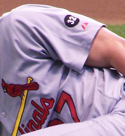 32 Memorial patch being worn by St. Louis Cardinals players to honor Josh Hancock. Photo of Scott Rolen taken at Miller Park in Milwaukee, WI on Monday April 30th, 2007